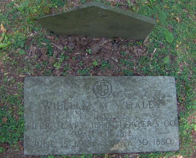 The grave of William Whaley (1788-1880) at Plemmons Cemetery in Greenbrier, located in the Great Smoky Mountains of East Tennessee. Along with his brother Middleton, Whaley was the first permanent Euro-American settler in Greenbrier, arriving around 1800. A crude inscription on the original gravestone reads: WM WHALEY SR DC MAY THE 30 1880 AGE NINTY 92